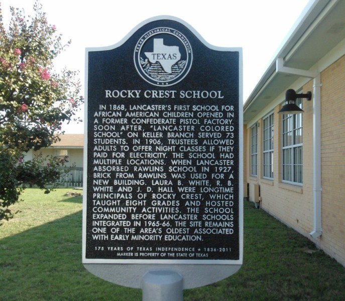 Texas Historical Marker at Rocky Crest School in Lancaster, Texas, United States.